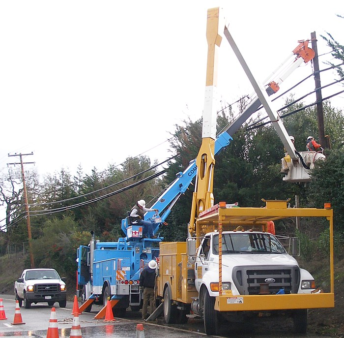 These linemen are repairing Pacific Gas and Electric Company electric power transmission lines in Los Altos Hills. They are removing the remainder of a pole that snapped during a recent rainstorm.